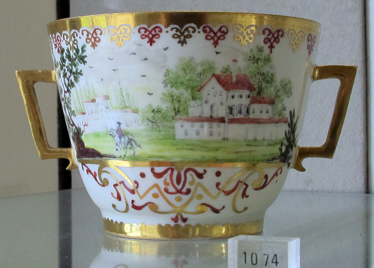 Porcelain Museum (Florence) - Porcelain of Germany